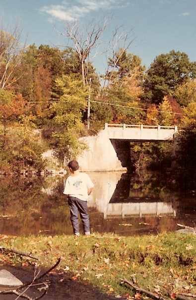 Pleasant River in Windham, Maine. The confluence with Ditch Brook is just behind the US highway 302 bridge in the background.